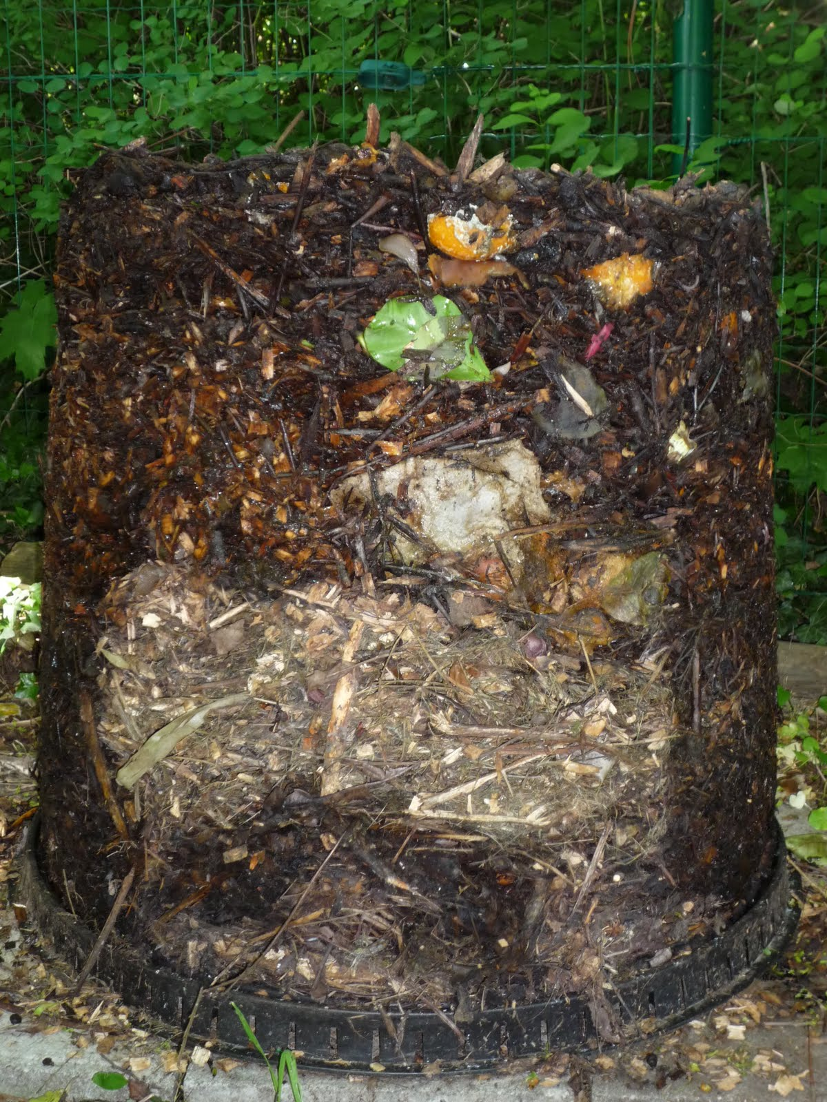 Compost from Compost Bin